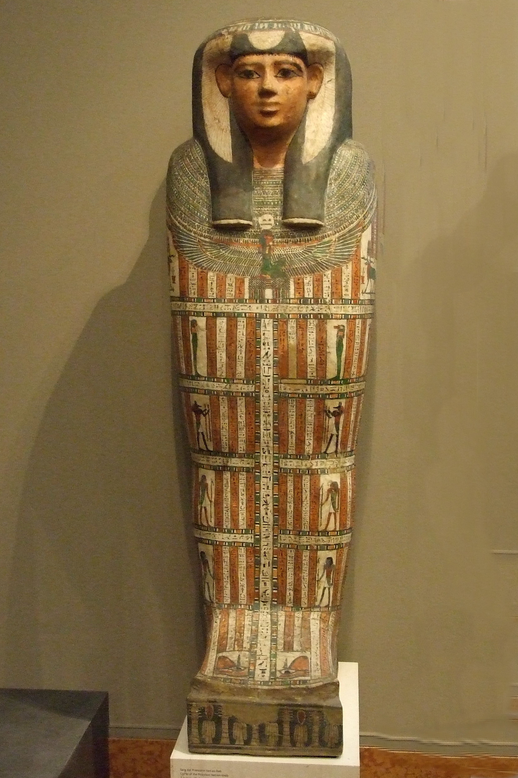 Coffin of the priestess "Iset-en-kheb", Egypt, probable Thebes, 25th-26th dynasty, 7th-6th c. BC, at "Liebieghaus" in Frankfurt am Main, Germany.